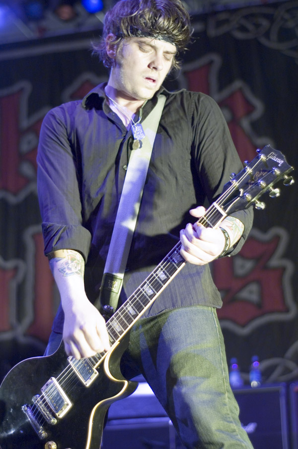 James Lynch live